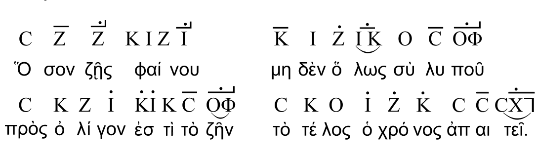 Ancient musical score and lyrics of the Epitaph of Seikilos.